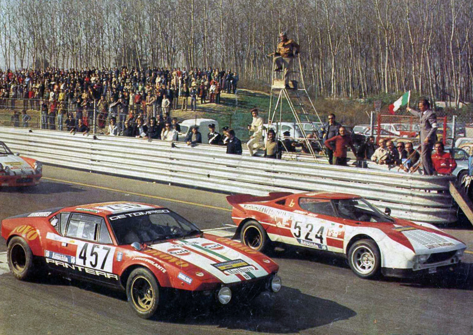 Morano sul Po (Alessandria, Italy), Casale Circuit, October 1973. Mario Casoni's De Tomaso Pantera Gr. 4 of Jolly Club racing team (no. 457), and Jean-Claude Andruet's Lancia Stratos Marlboro Prototype (no. 524), at the start of Casale Monferrato special stage valid for the 1973 Automotive Tour of Italy.